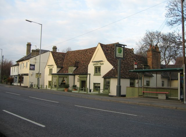 The Green Man More of a restaurant than a pub these days.